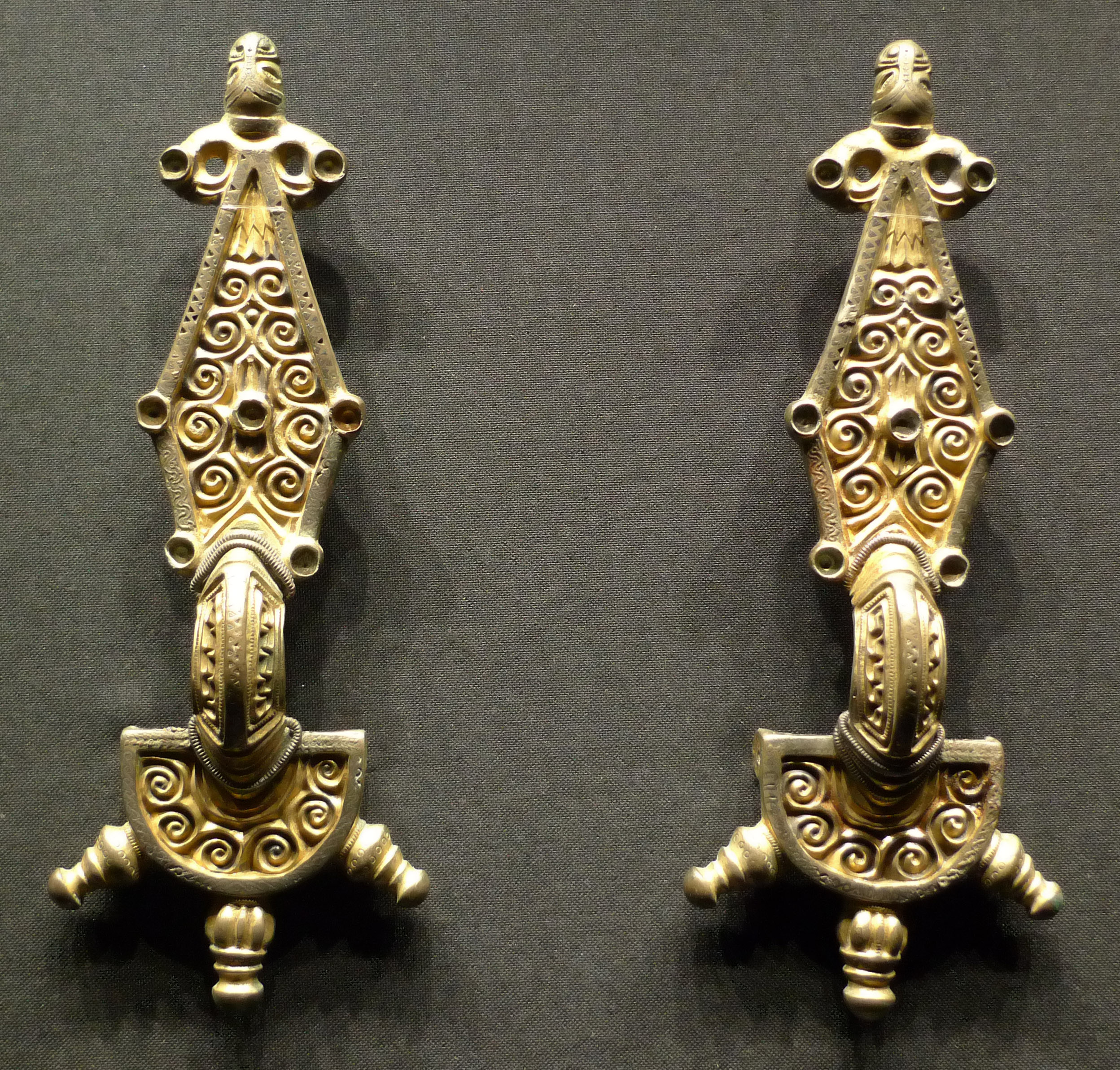 Arc fibulae, gilded silver, niello and garnet decorations. Late 5th or early 6th ct., Transylvania.